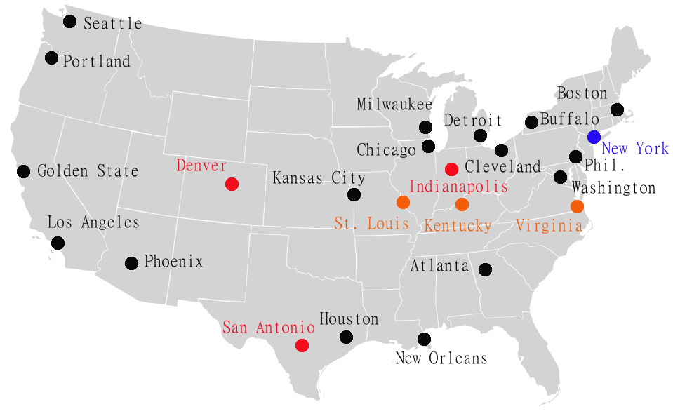 Cities that hosted ABA and NBA teams at the time of the merger in 1976. There were seven ABA teams that finished the final ABA season. The teams in Indianapolis, San Antonio, Denver, and New York (which also hosted the Knicks) joined the NBA. The teams in St. Louis, Virginia, and Kentucky went defunct. Based on this blank map: Based on data from Basketball-Reference